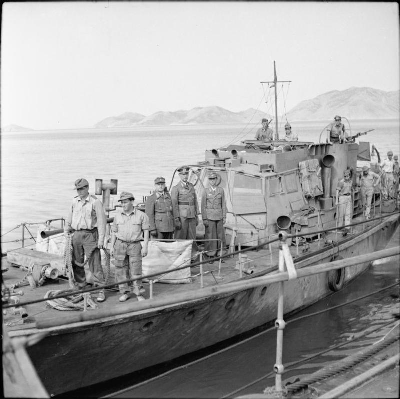 The Liberation of Rhodes, 1945 Major General Wagner, Commander of German forces in the Dodecanese, and two of his staff officers come alongside the destroyer HMS KIMBERLEY, on a motor launch which the Germans had captured from the British a few months previously. The KIMBERLEY took Wagner to the island of Symi in the Aegean, where the unconditional surrender of German forces in the region was signed.